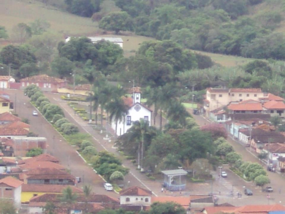 Couto